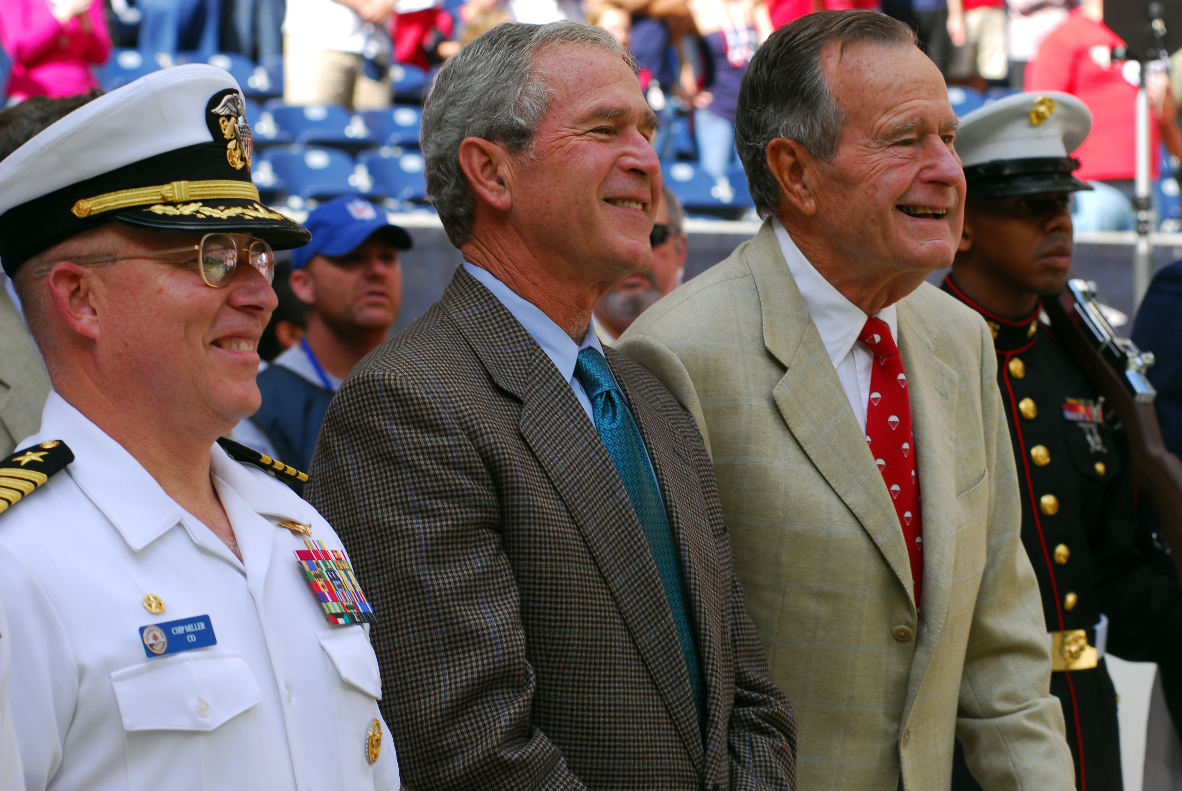 HOUSTON, Texas (Oct. 25, 2009) The Commanding Officer of USS George H.W. Bush (CVN 77) Capt. Chip Miller, left, and Presidents George W. Bush, center, and George H.W. Bush, right, observe a National Football League game between the Houston Texans and San Francisco 49ers during Navy Week 2009 events at Reliant Stadium, Houston, Texas. (U.S. Navy photo by Mass Communication Specialist 1st Class Jason Winn/Released)